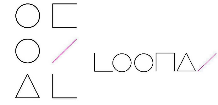 LOONA orig. logos All right to Blockberry Creative ent.